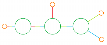 Explicative Xcast graphic.